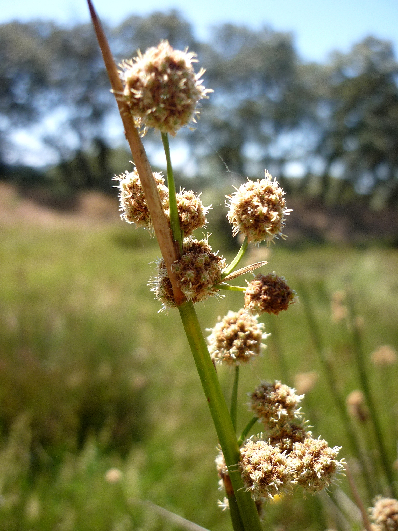 Scirpus holoschoenus . In Pinós (Solsonès - Catalunya). To 705 m. altitude